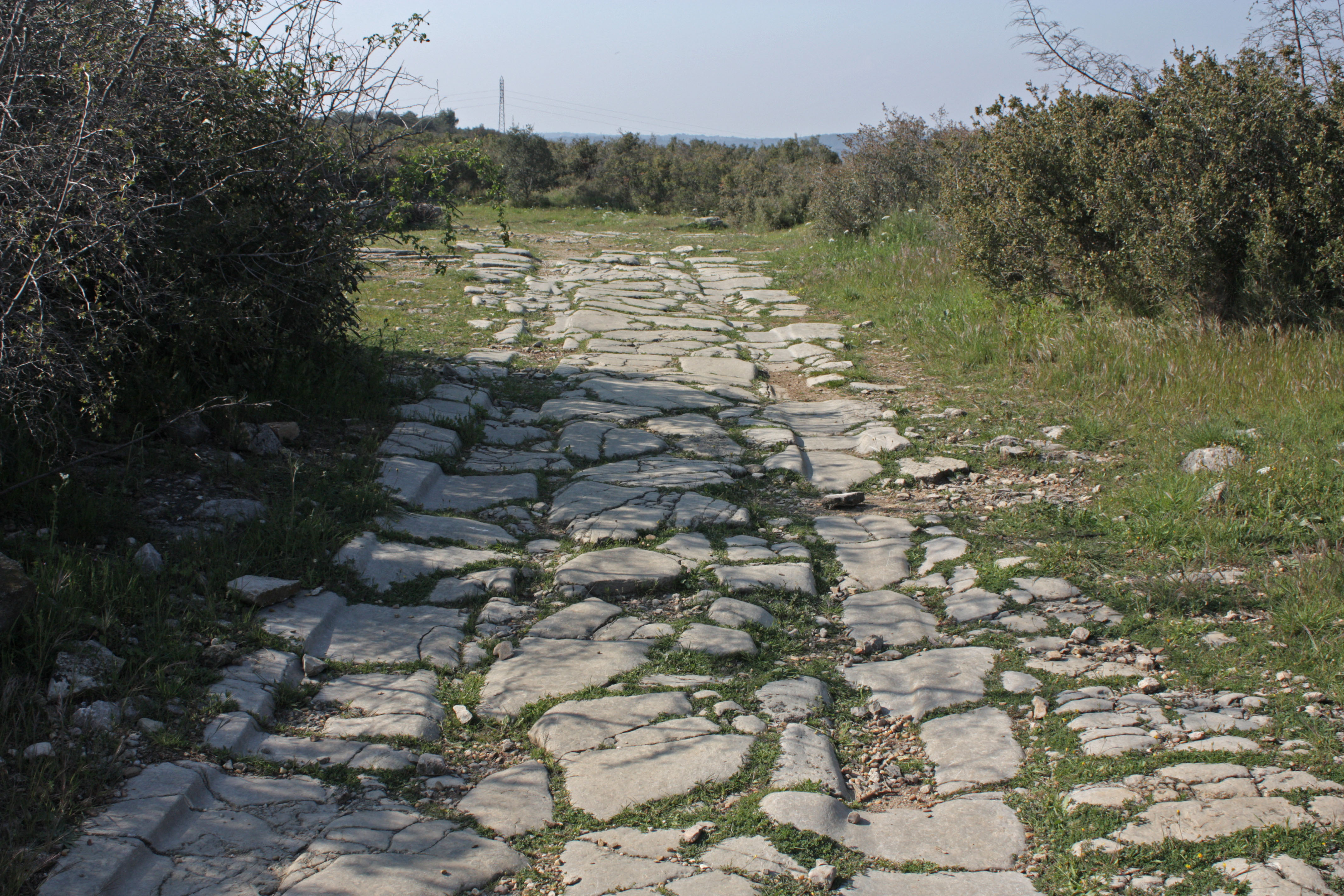 The Domitian Way, direction Narbonne, at the crossing of the south gate of the castellum of Ambrussum..